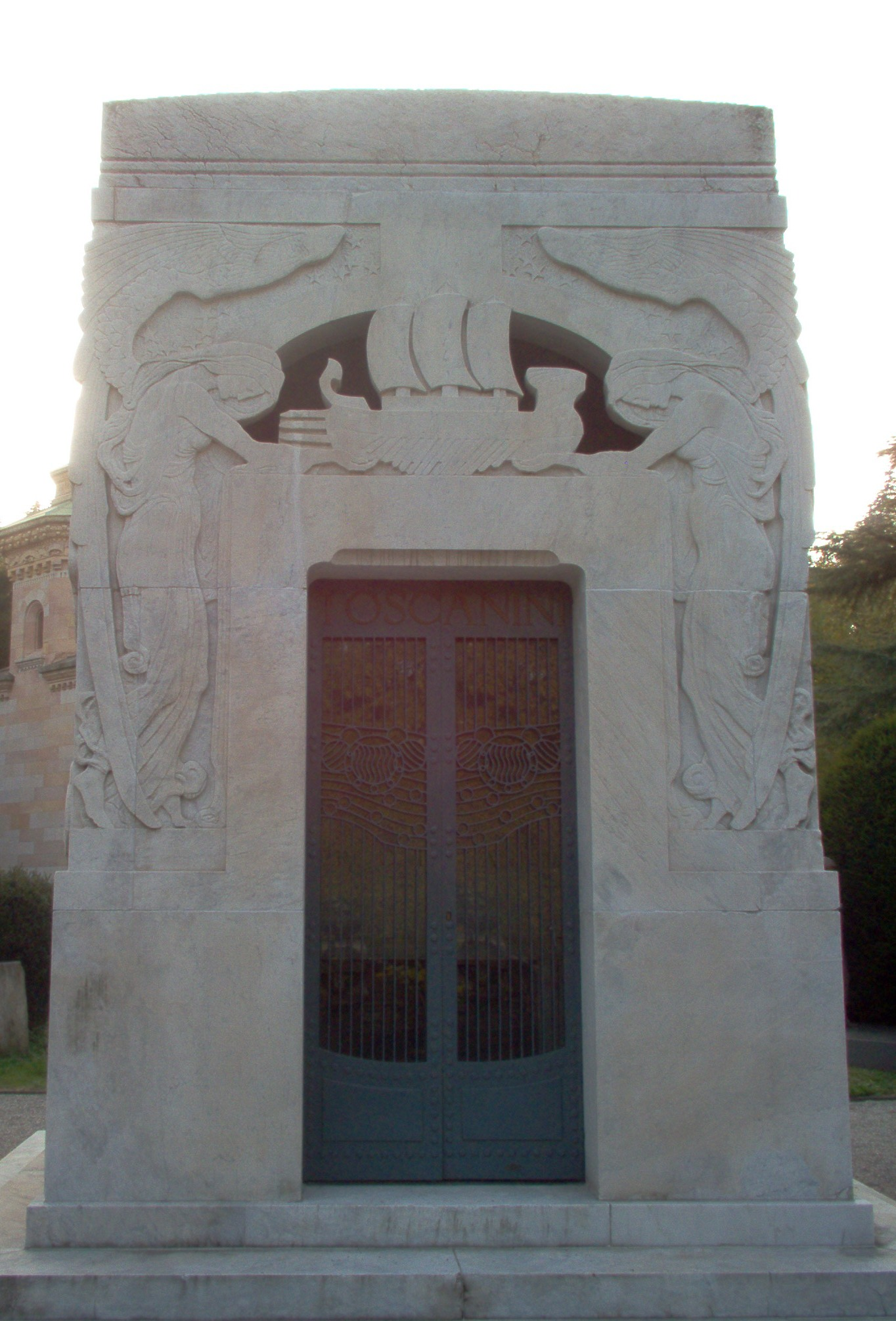 Arturo Toscanini's tomb, in Milan, by Leonardo Bistolfi (1859-1933), built originally in 1915 for Toscanini's child. It also houses the body of Vladimir Horowitz.